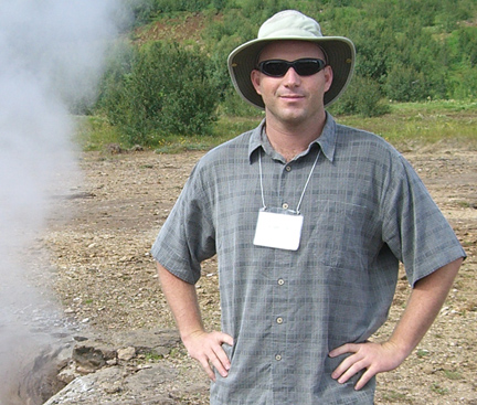 Antony Garrett Lisi, american theoretical physicist